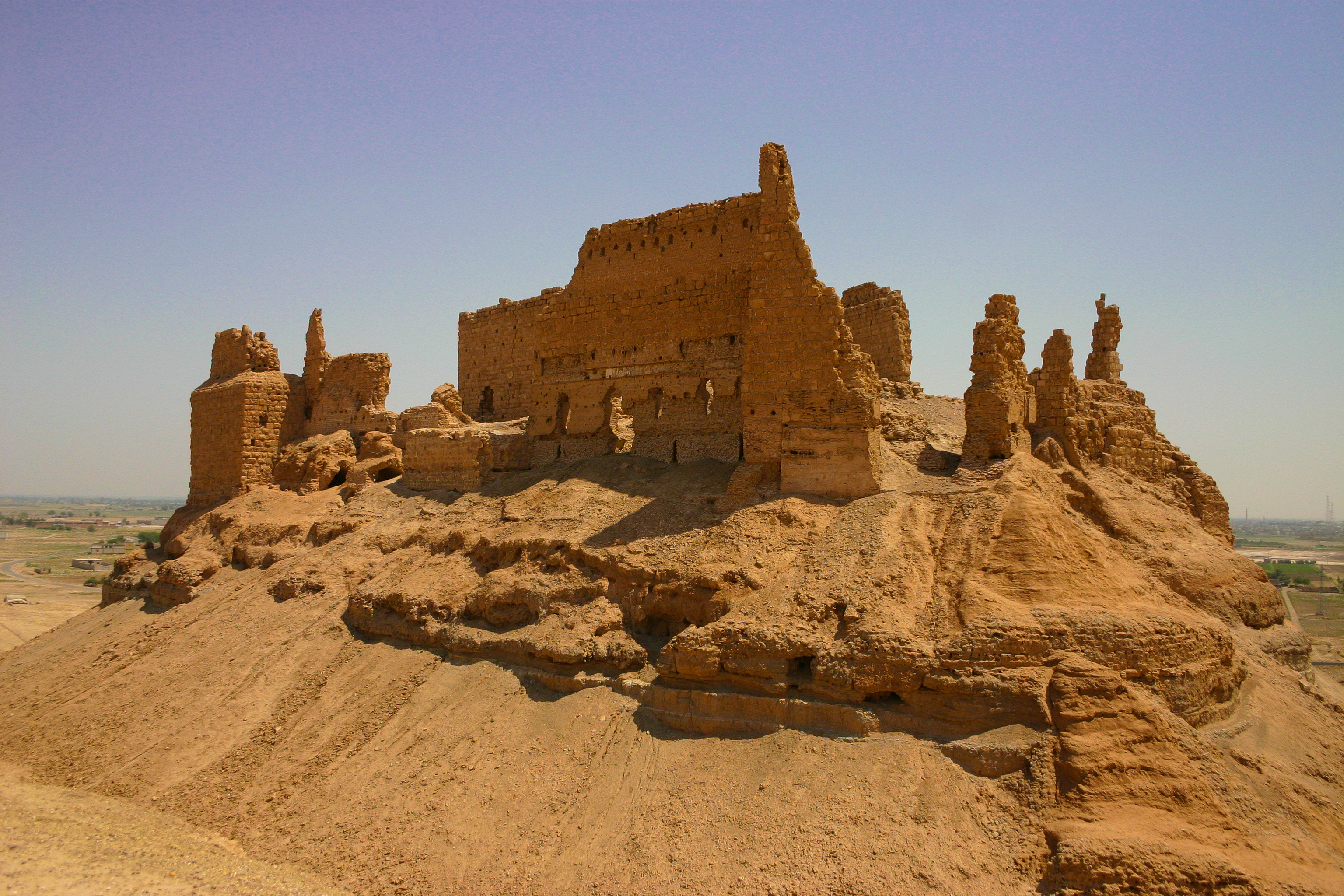 Qal'at Rahbeh as seen from the southwest. The castle is located on the edge of the Euphrates Valley in Syria